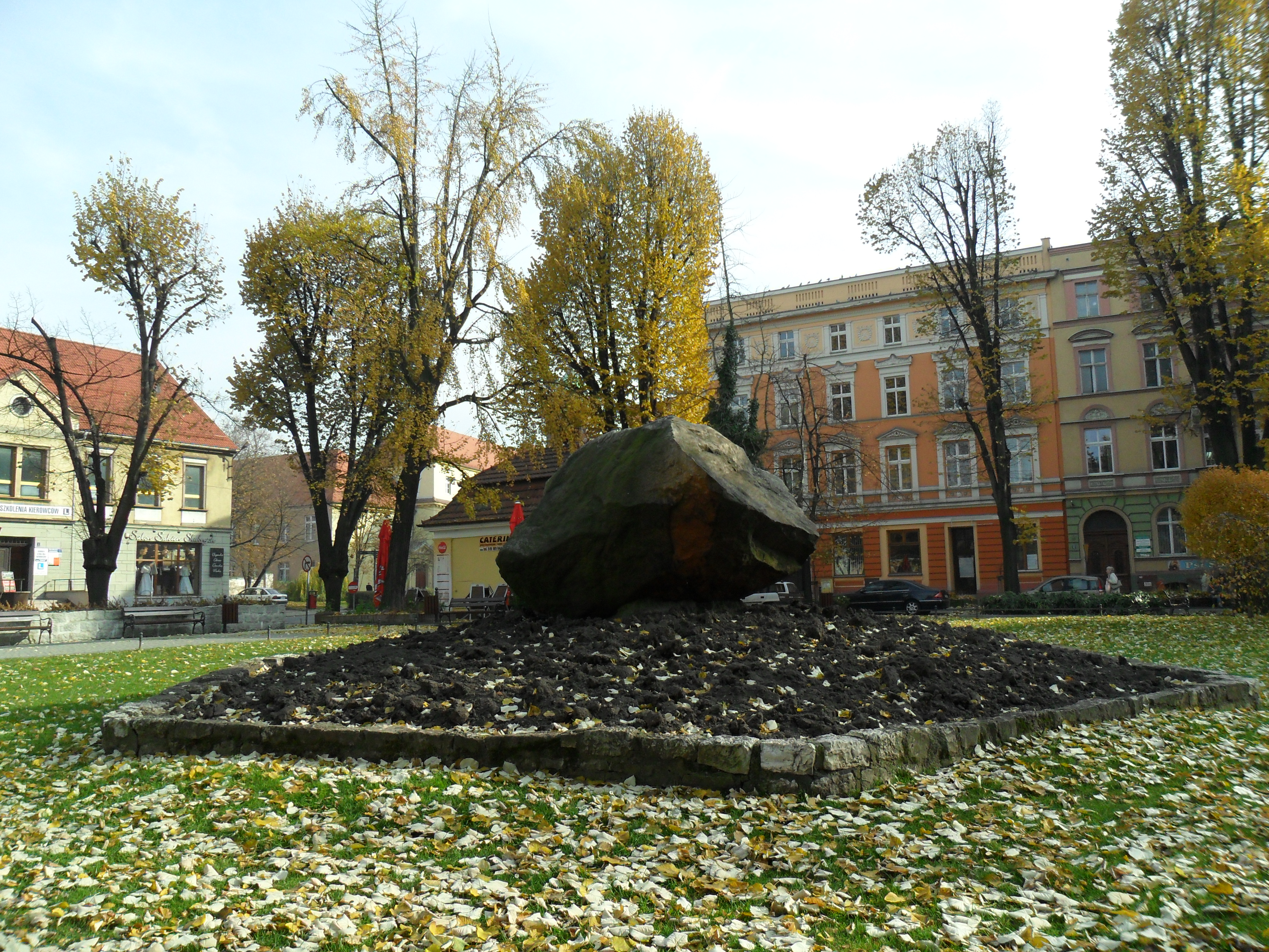 Glacial erratic on Wolności square in Racibórz